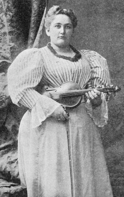 Portrait of Caroline Nichols, director of the Fadettes of Boston